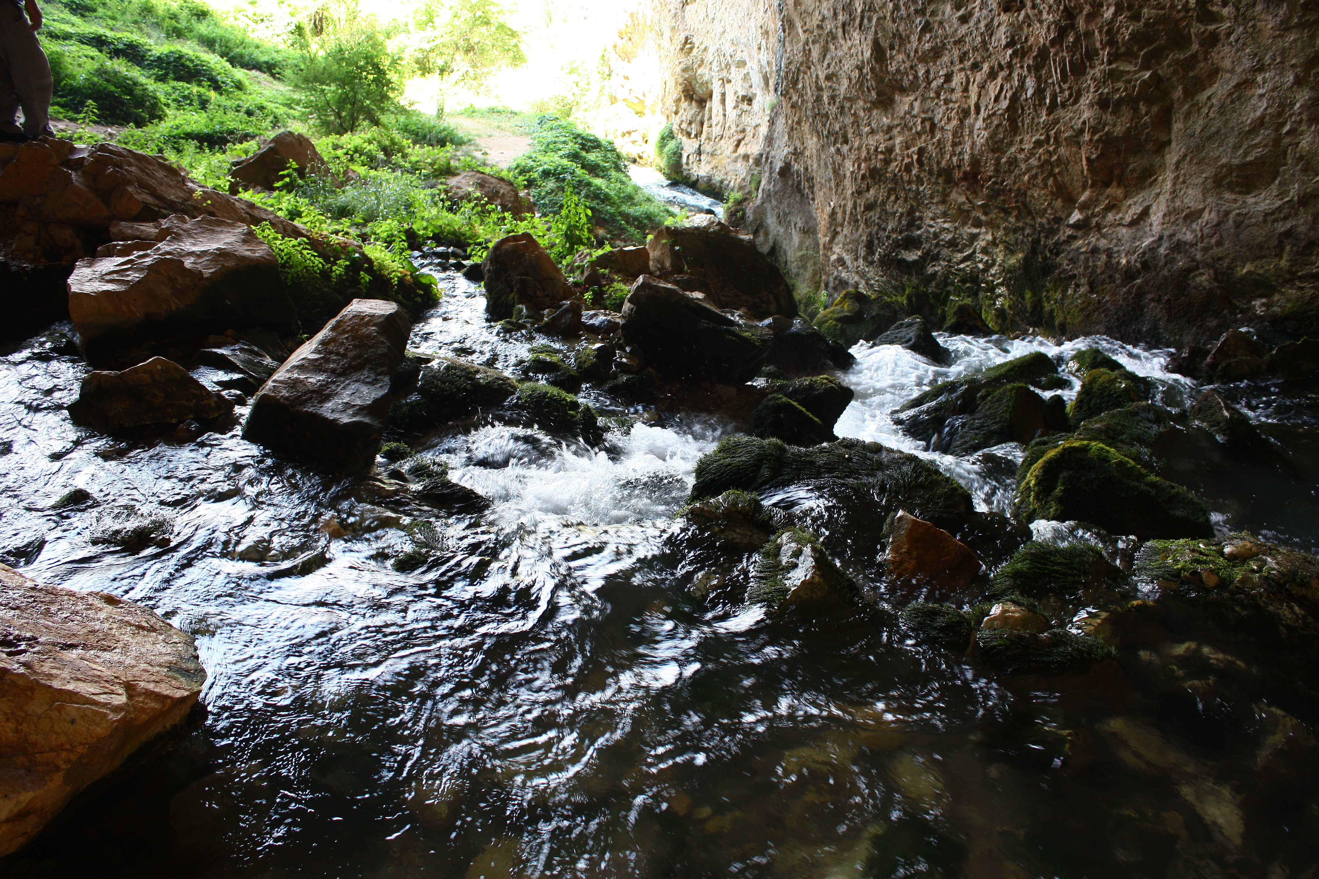 Pešnica river, Macedonia